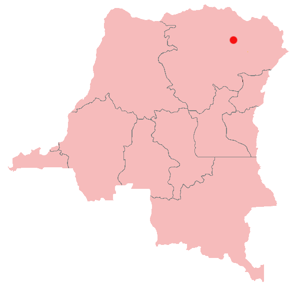 Isiro, Democratic Republic of the Congo Location Map; created with the GIMP. Made by User:Acntx.